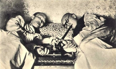 An image related to the recreational consumption of opium extracted from an article from the magazine Collectors Weekly.